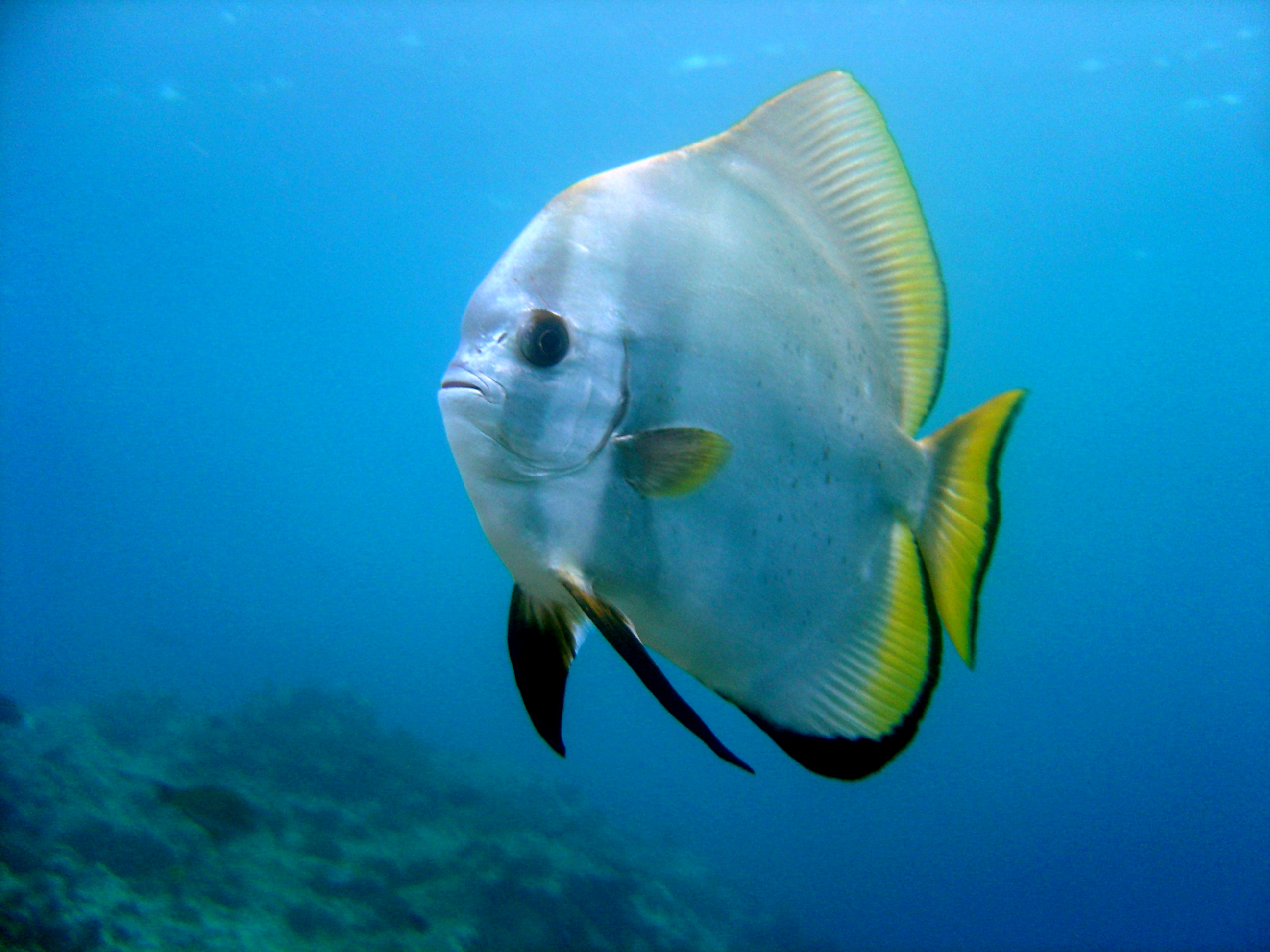 Circular spadefish (Platax orbicularis) Image ID: reef1404, NOAA's Coral Kingdom Collection Location: Palau